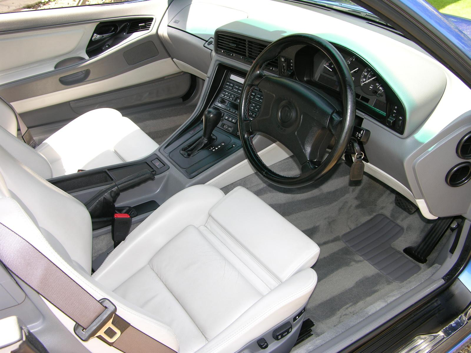 BMW 840 Ci Sport